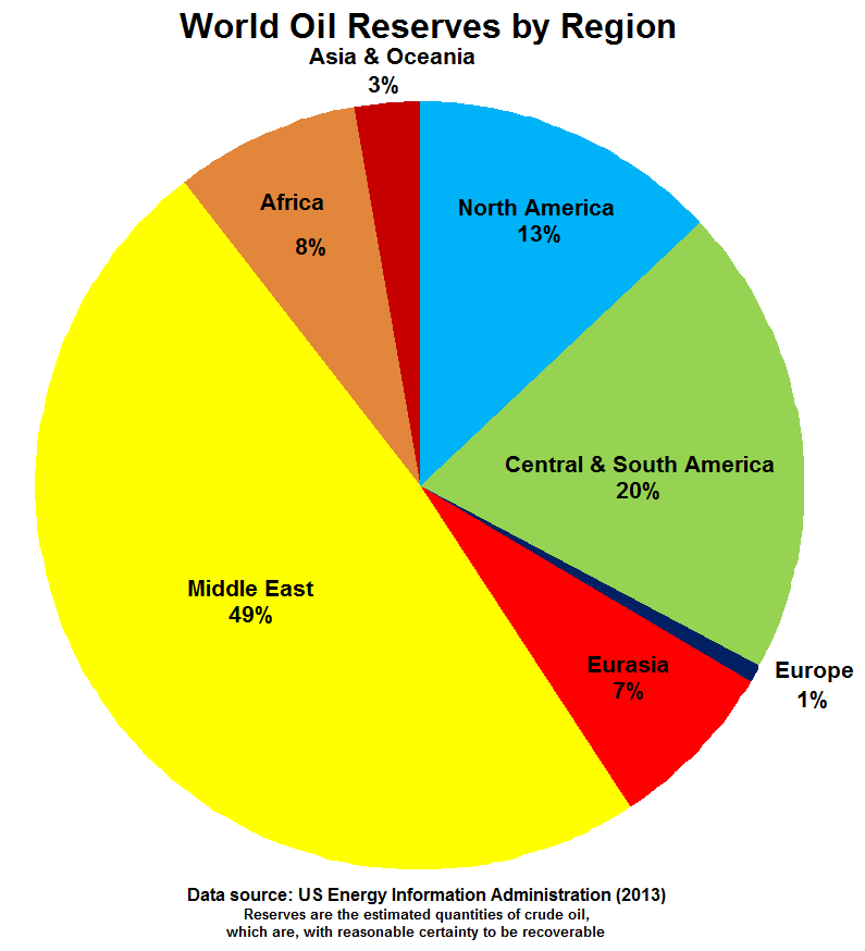 Pie chart of world oil reserves by region in 2013. Europe includes Albania Austria Belgium Bosnia and Herzegovina Bulgaria Croatia Cyprus Czech Republic Denmark Faroe Islands Finland France Germany Gibraltar Greece Hungary Iceland Ireland Italy Luxembourg Macedonia Malta Montenegro Netherlands Norway Poland Portugal Romania Serbia Slovakia Slovenia Spain Sweden Switzerland Turkey United Kingdom Eurasia includes: Armenia Azerbaijan Belarus Estonia Georgia Kazakhstan Kyrgyzstan Latvia Lithuania Moldova Russia Tajikistan Turkmenistan Ukraine Uzbekistan Middle East includes: Bahrain Iran Iraq Israel Jordan Kuwait Lebanon Oman Qatar Saudi Arabia Syria United Arab Emirates Yemen Asia and Oceania includes: Afghanistan American Samoa Australia Bangladesh Bhutan Brunei Burma (Myanmar) Cambodia China Cook Islands Fiji French Polynesia Guam Hong Kong India Indonesia Japan Kiribati Korea, North Korea, South Laos Macau Malaysia Maldives Mongolia Nauru Nepal New Caledonia New Zealand Niue Pakistan Papua New Guinea Philippines Samoa Singapore Solomon Islands Sri Lanka Taiwan Thailand Timor-Leste (East Timor) Tonga U.S. Pacific Islands Vanuatu Vietnam Wake Island